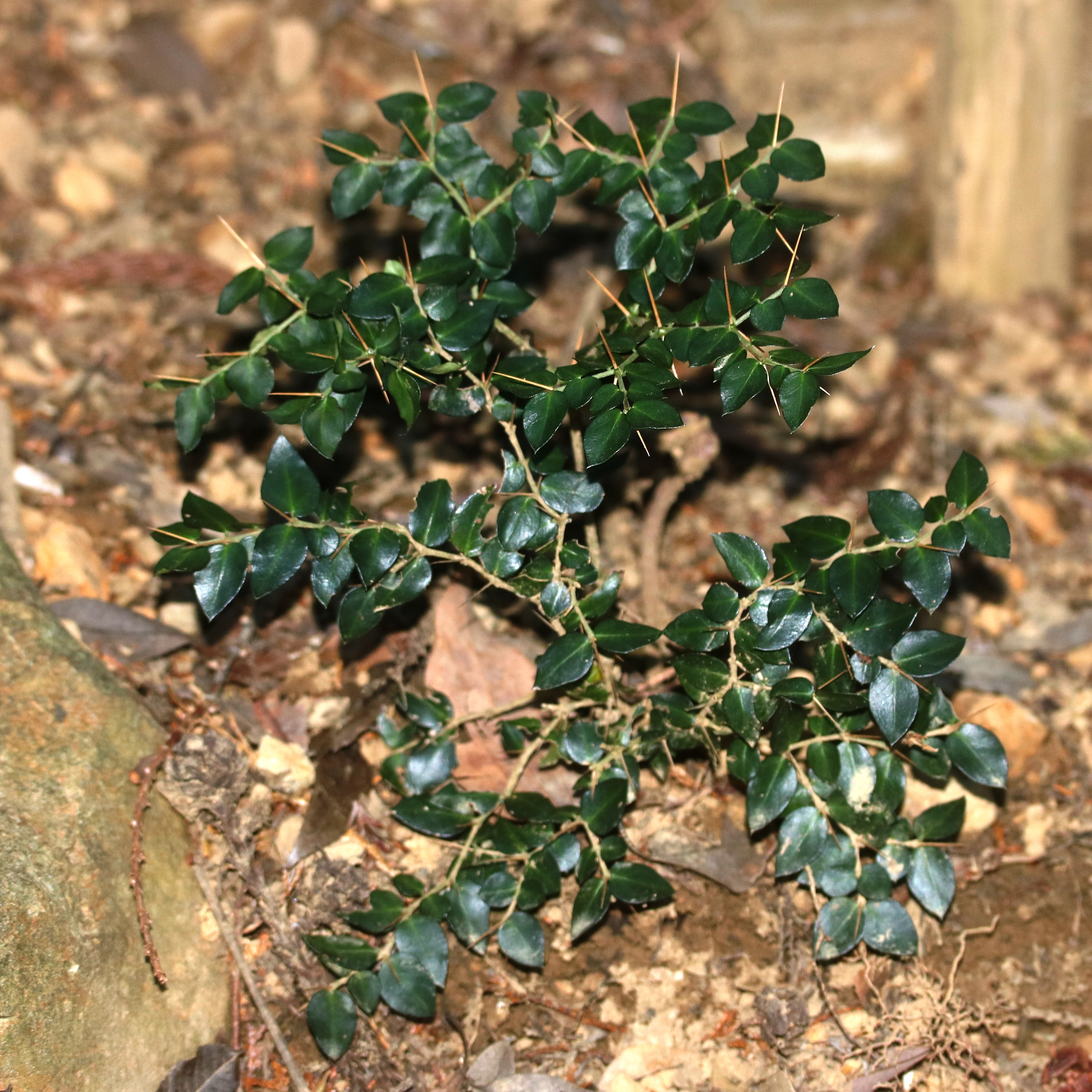 Damnacanthus indicus in Mount Kichijo, Toyohashi, Aichi Prefecture, Japan.